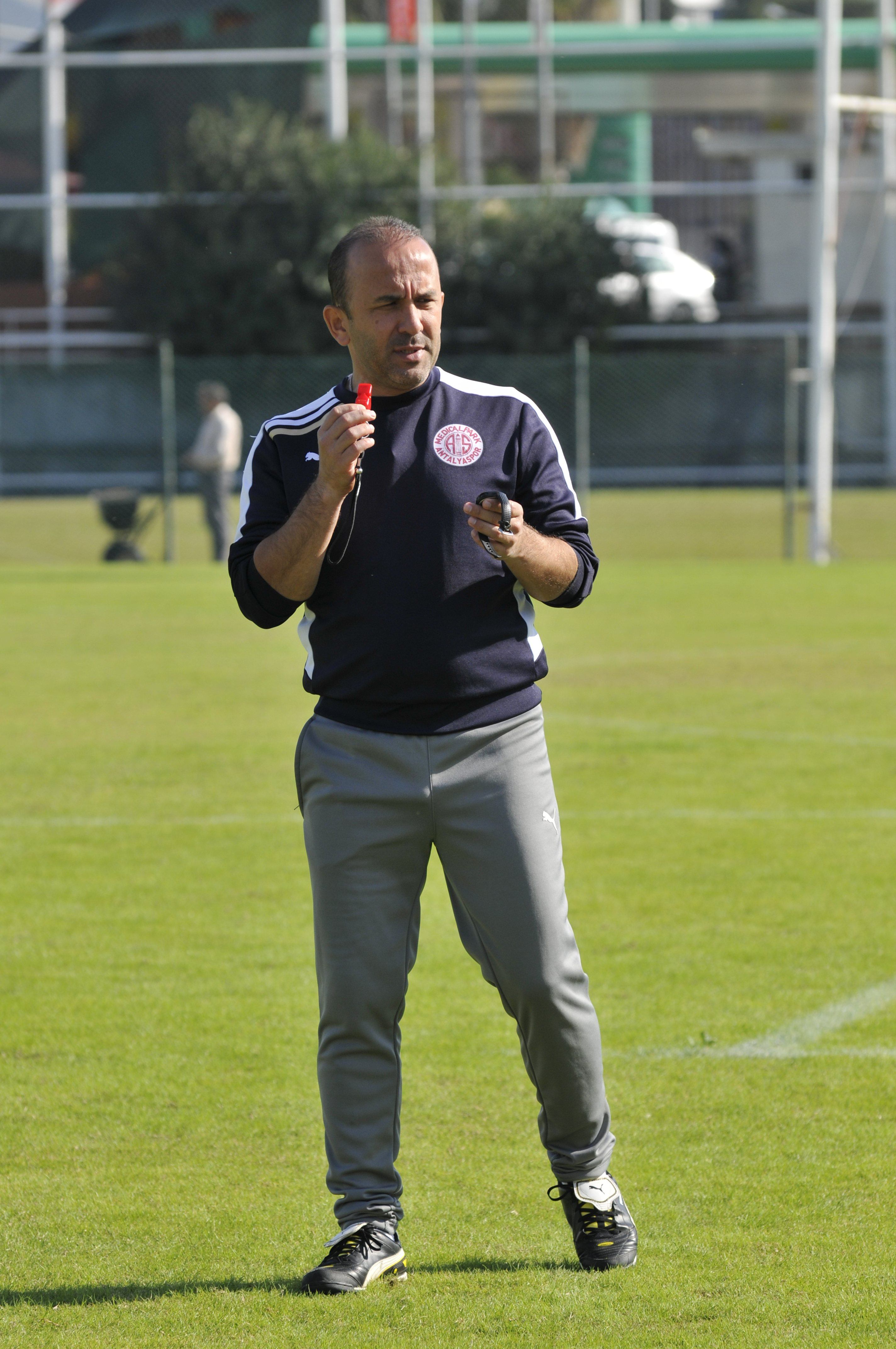 Photo : Murat Özgen